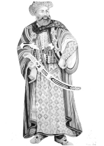 Painting of Khair ad Din, founder of modern Algeria.